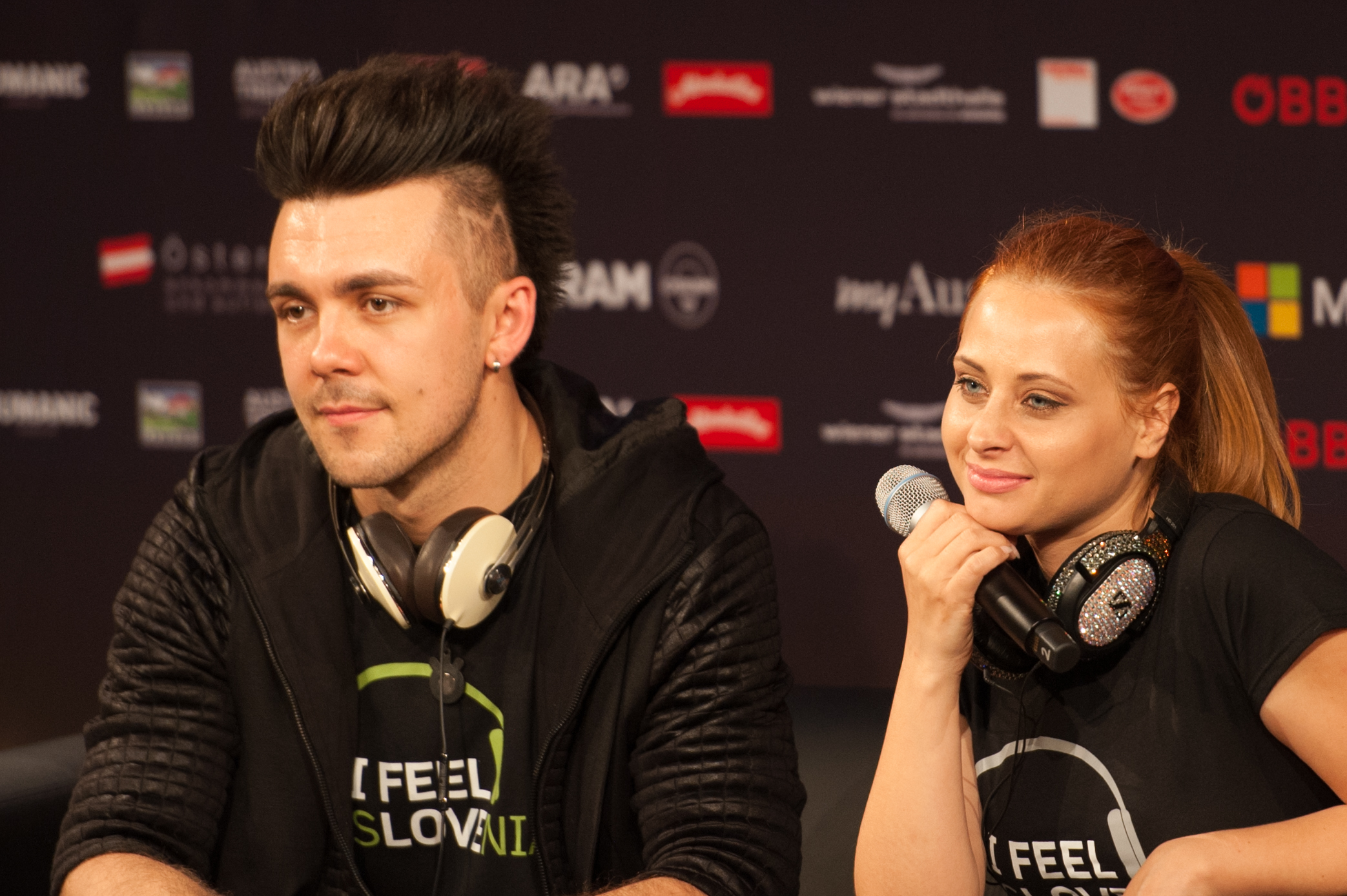 Eurovision Song Contest Vienna 2015: Maraaya